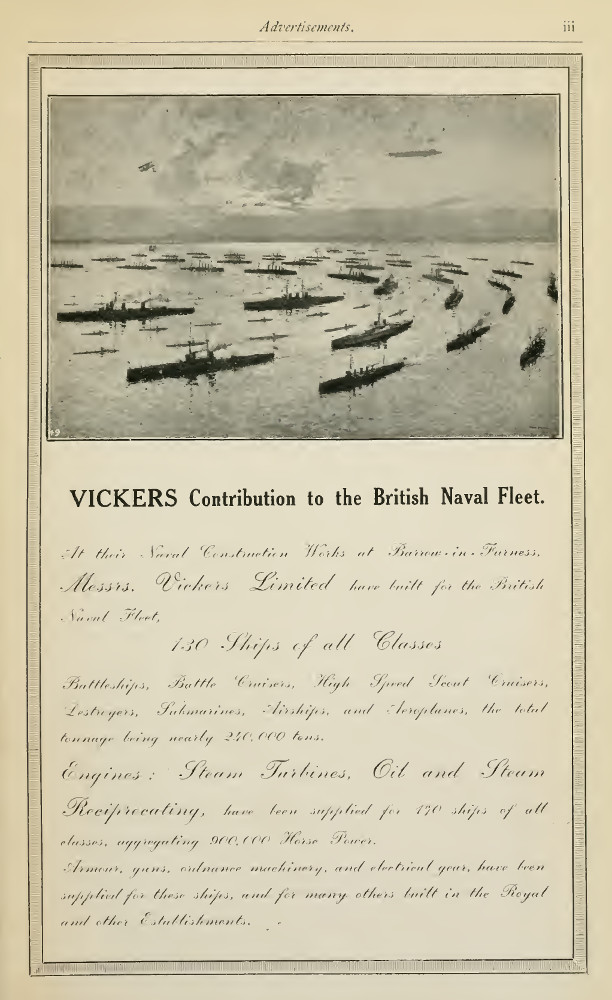 Advertisement for Vickers Ltd. in Brassey's Naval Annual 1915.